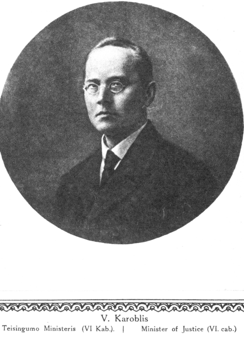 Vincas Karoblis, lawyer, member of Lithuanian Seimas